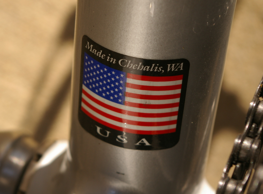 A badge on a grey Klein Quantum Racing bike, stating that it was made in Chehalis.